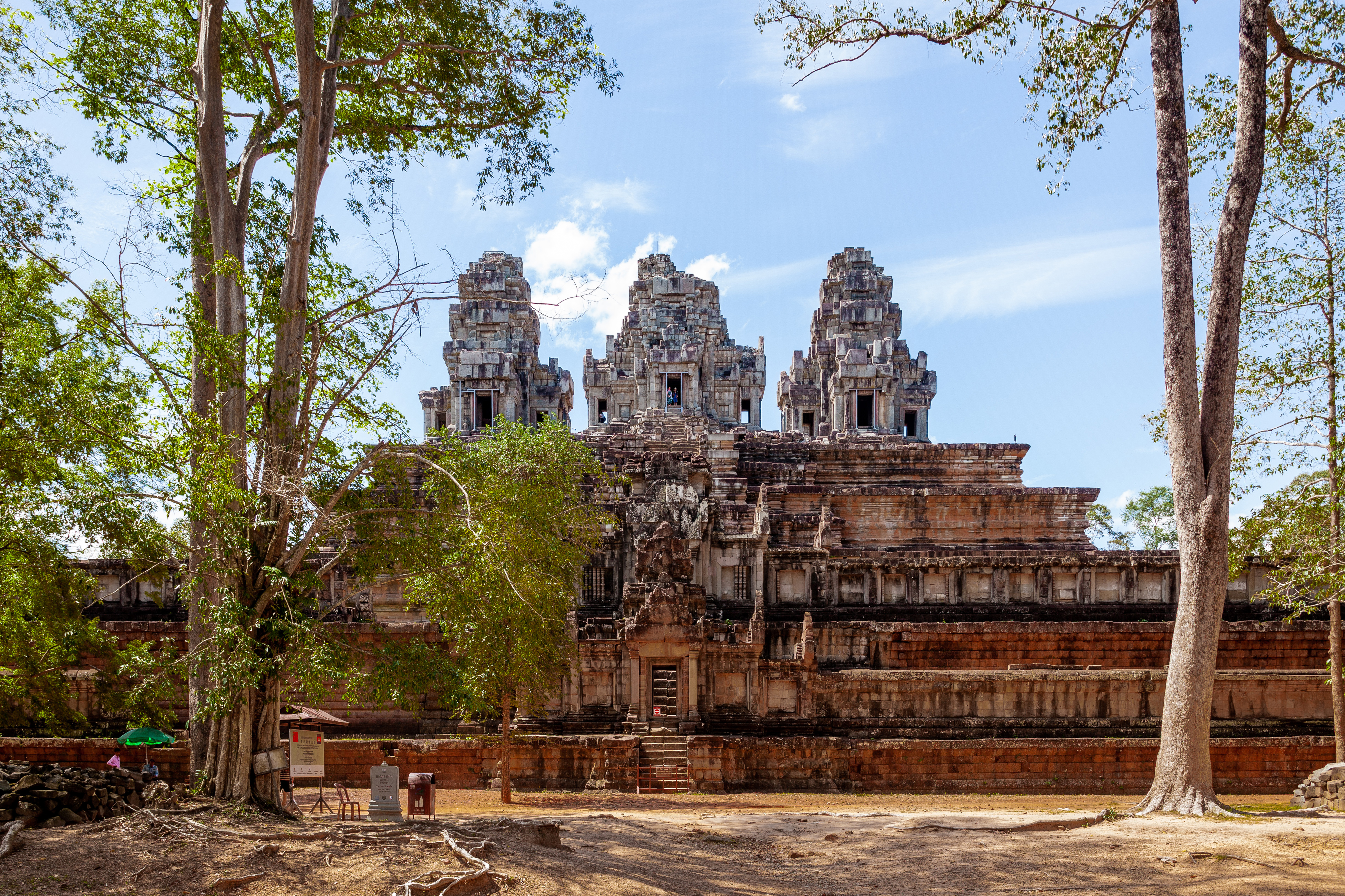 Ta Keo (Khmer: ប្រាសាទតាកែវ) is a temple-mountain in Angkor (Cambodia), possibly the first to be built entirely of sandstone by Khmers.